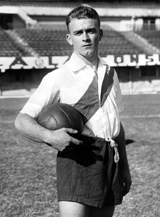 River Plate player Alfredo Di Stefano.